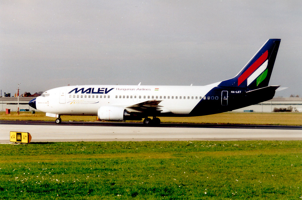 Boeing 737-300 HA-LET at Prague.